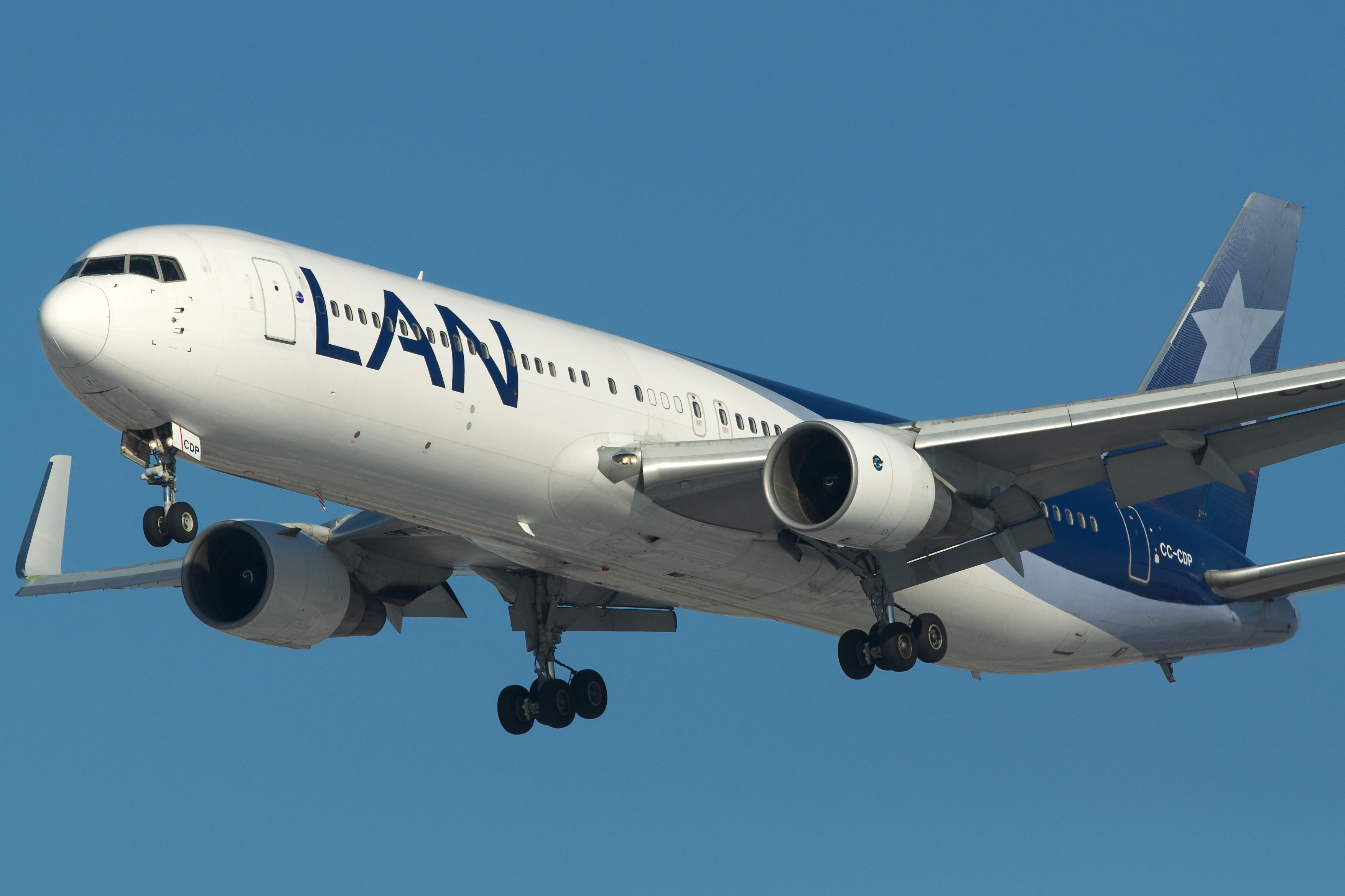 LAN Chile 767-300ER CC-CDP